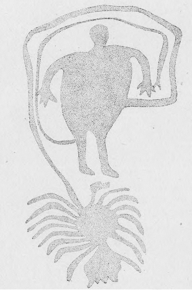 Spiderman petroglyph from Spider Cave (20DE3)